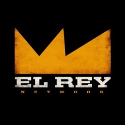 This is the American/international logo for the cable television service El Rey, which originated on 15 December 2013.